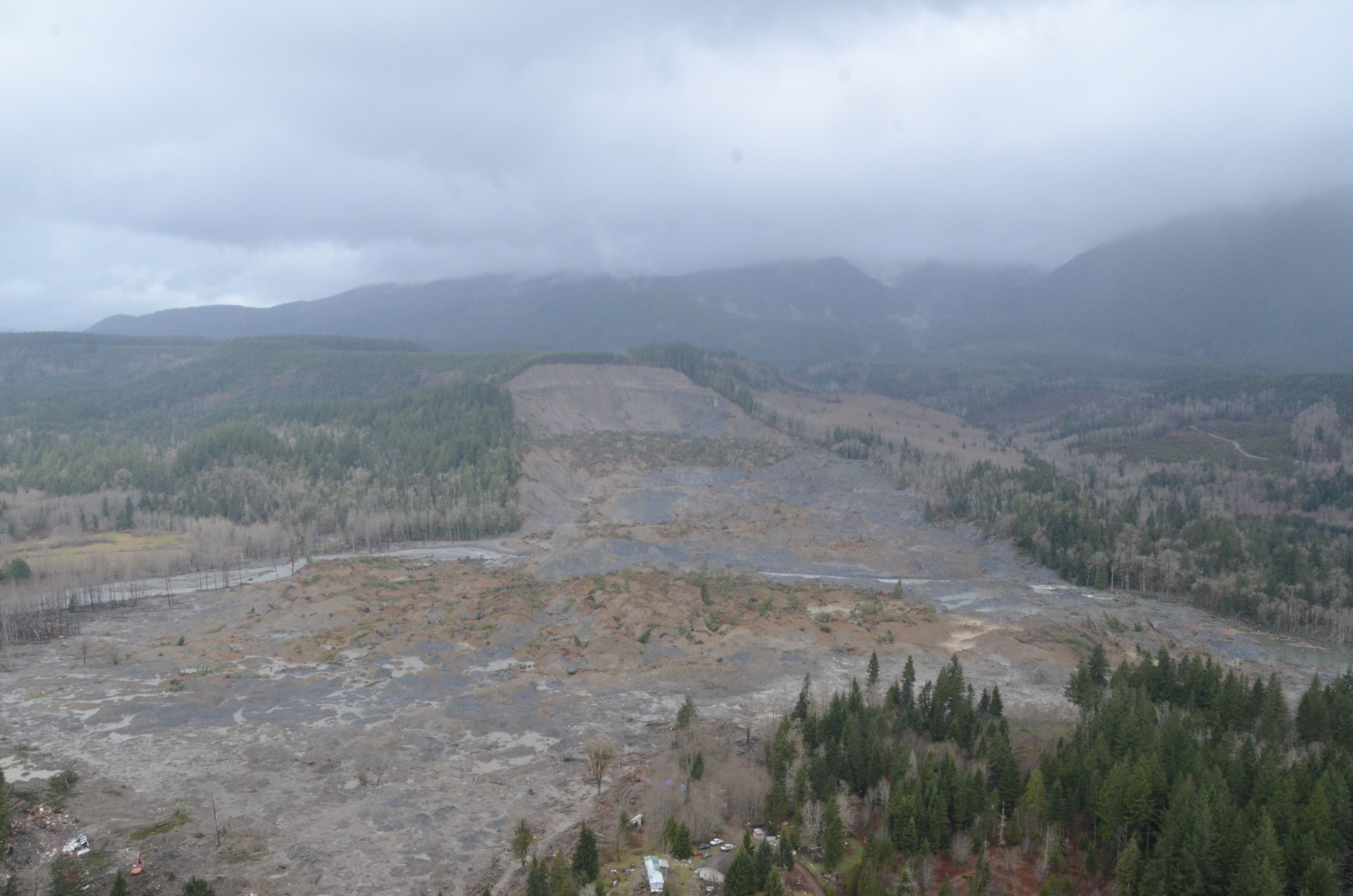 A view from a Washington Army National Guard helicopter shows the aftermath of the mudslide more than a week after it occurred. The National Guard has been helping the community with search and recovery efforts since they were activated Tuesday.